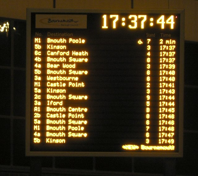 Bournemouth: Travel Interchange departure board No fewer than 17 buses are due to pass through the 631225 in the next 12 minutes, during the busy evening rush-hour, to a variety of destinations. Note the two methods of displaying times: the first bus on the list has the number of minutes to its expected arrival, meaning that the vehicle is tracked by satellite and this is its 'real-time' due time; the others on this list are simply replicating the timetabled arrival times and are not based on the actual proximity of the vehicle. The scrolling message at the bottom tells of the new half-hourly shuttle service to Bournemouth Airport, which started on 7 November.